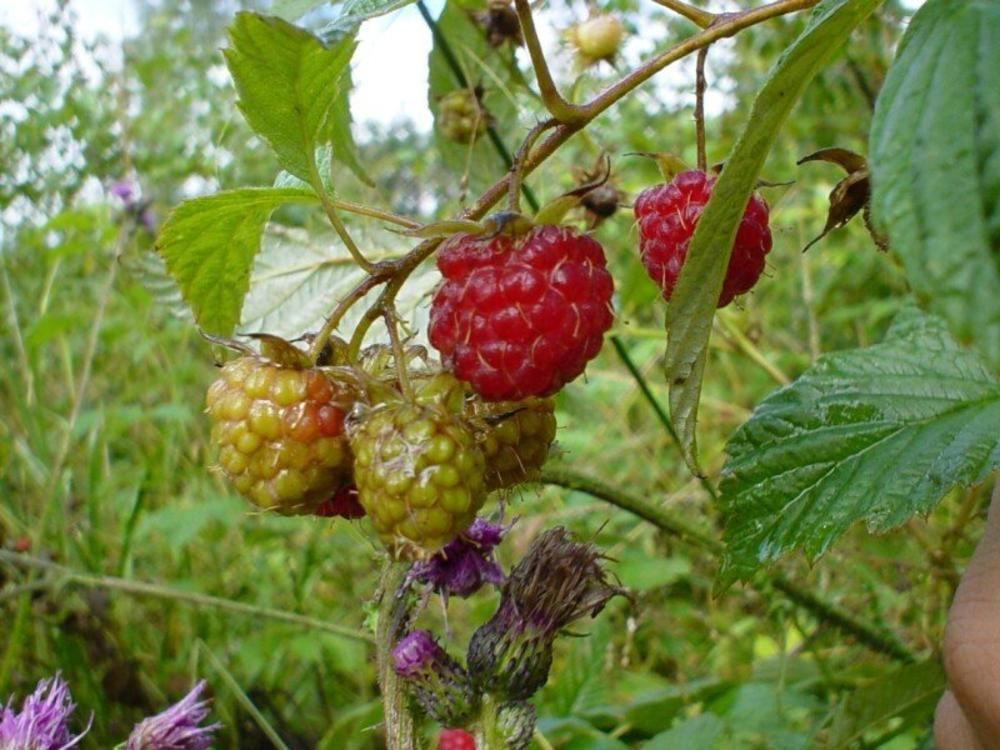 Wild Raspberry Rubus idaeus, Bålsta, Sweden.